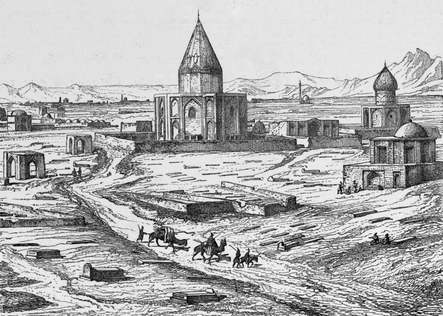 Dervishes Khanqah, Isfahan (Baba Rokn o Din Mausoleum)